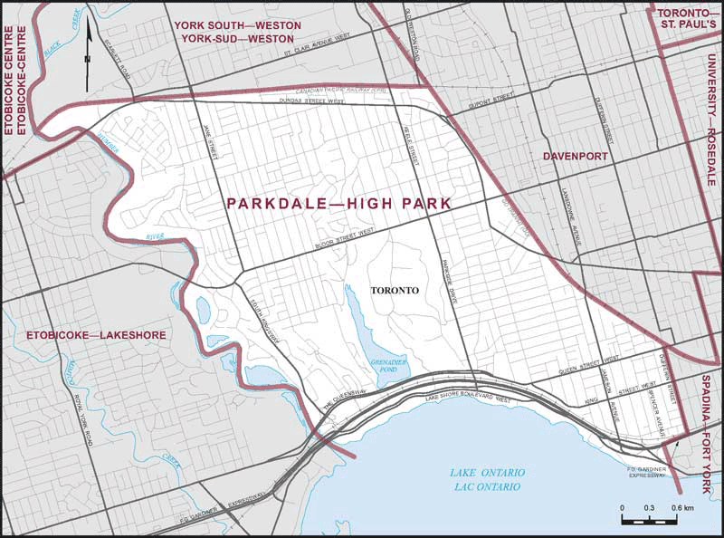 Parkdale-High Park Elections Canada map 35081 (2015 boundaries)